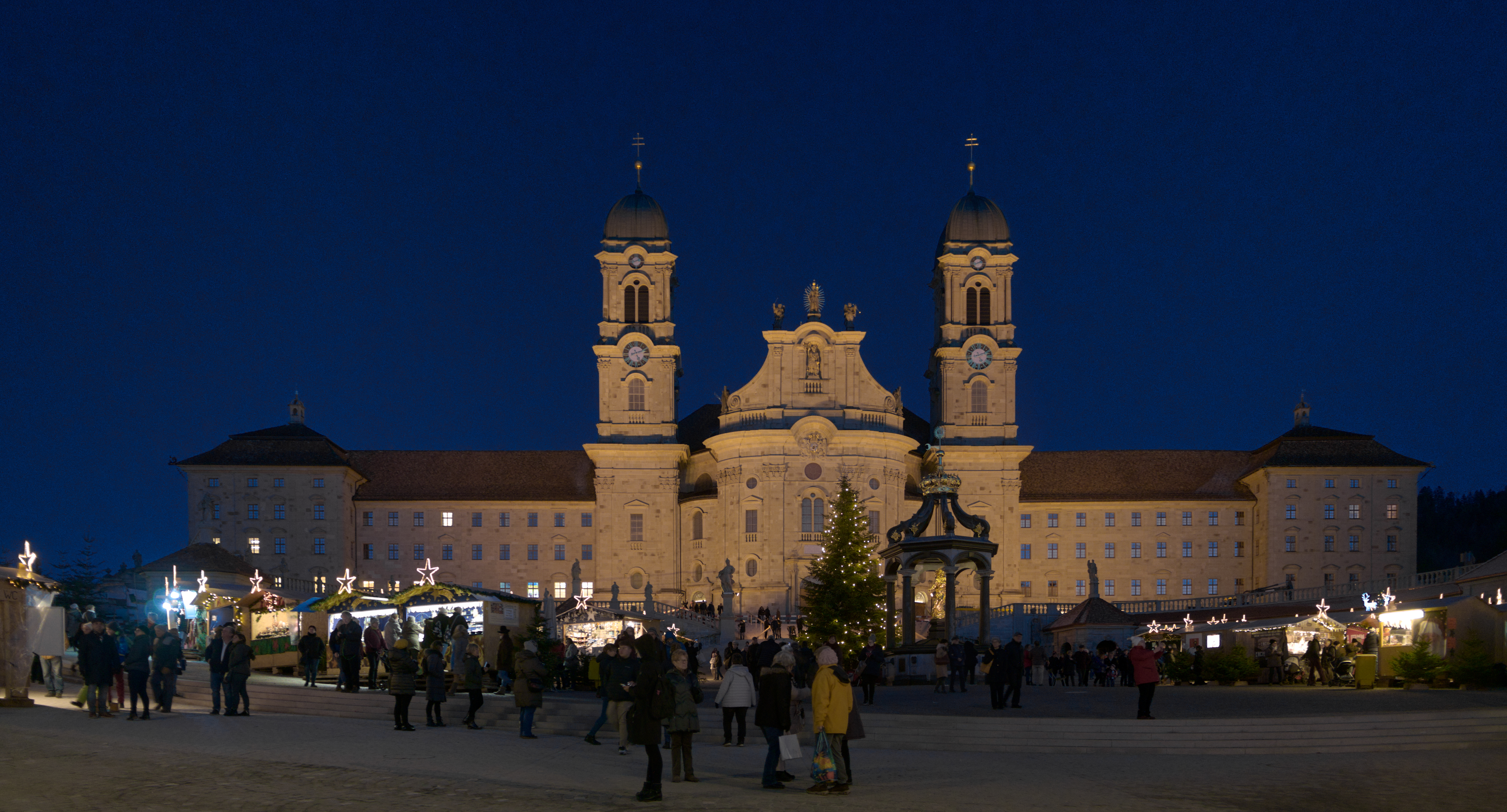 Hauptplatz Einsiedeln with the abbey, Marienbrunnen and parts of the Christmas market (Einsiedler Weihnachtsmarkt) after dark.